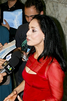 Brazilian actress Sonia Braga at 2010 Cine Ceará opening.